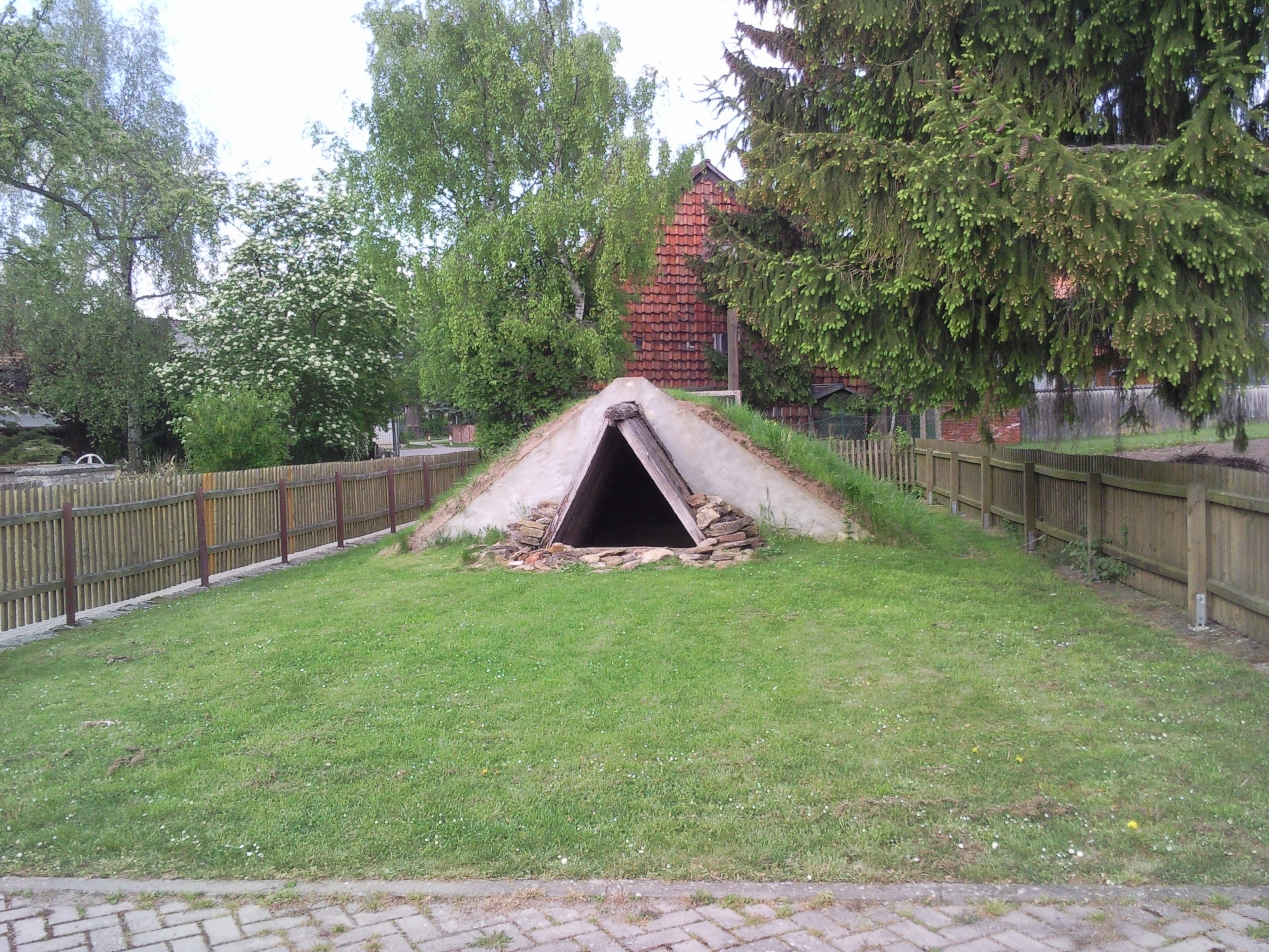 Neolithic grave-chamber in Remlingen (Lower Saxony)